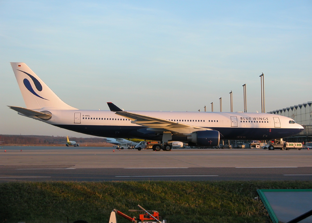 Blue Wings Airbus A330-223 at Cologne Bonn Airport